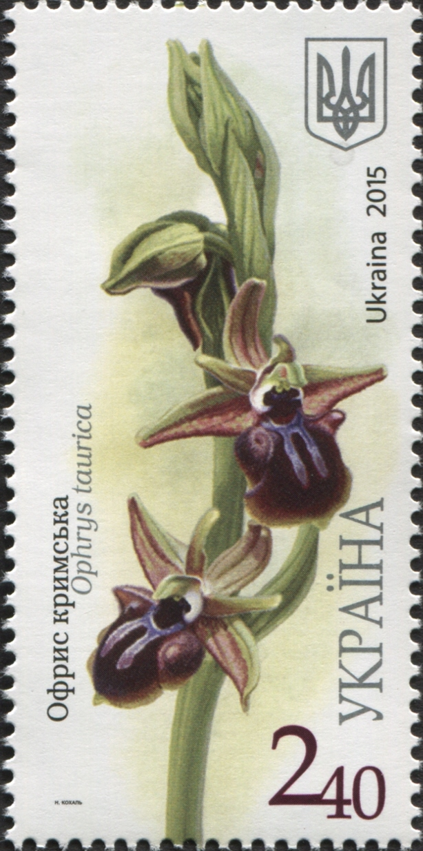 Stamps of Ukraine, 2015